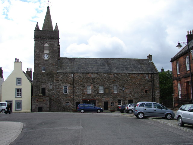 Kirkcudbright Tollbooth The Tollbooth dates from 1625-7, it now contains the Arts Centre. At the tower base/steps are the Mercat cross (1610), old well (1762-3) and inset into the walls are iron 'jougs'. Top of the spire is a Battle of Trafalgar weather-vane (1805).